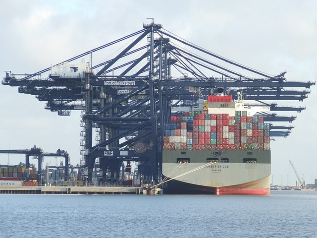 Humber Bridge Humber Bridge docked at the Port Of Felixstowe as seen from the other side of the River Orwell near to Shotley, Suffolk.